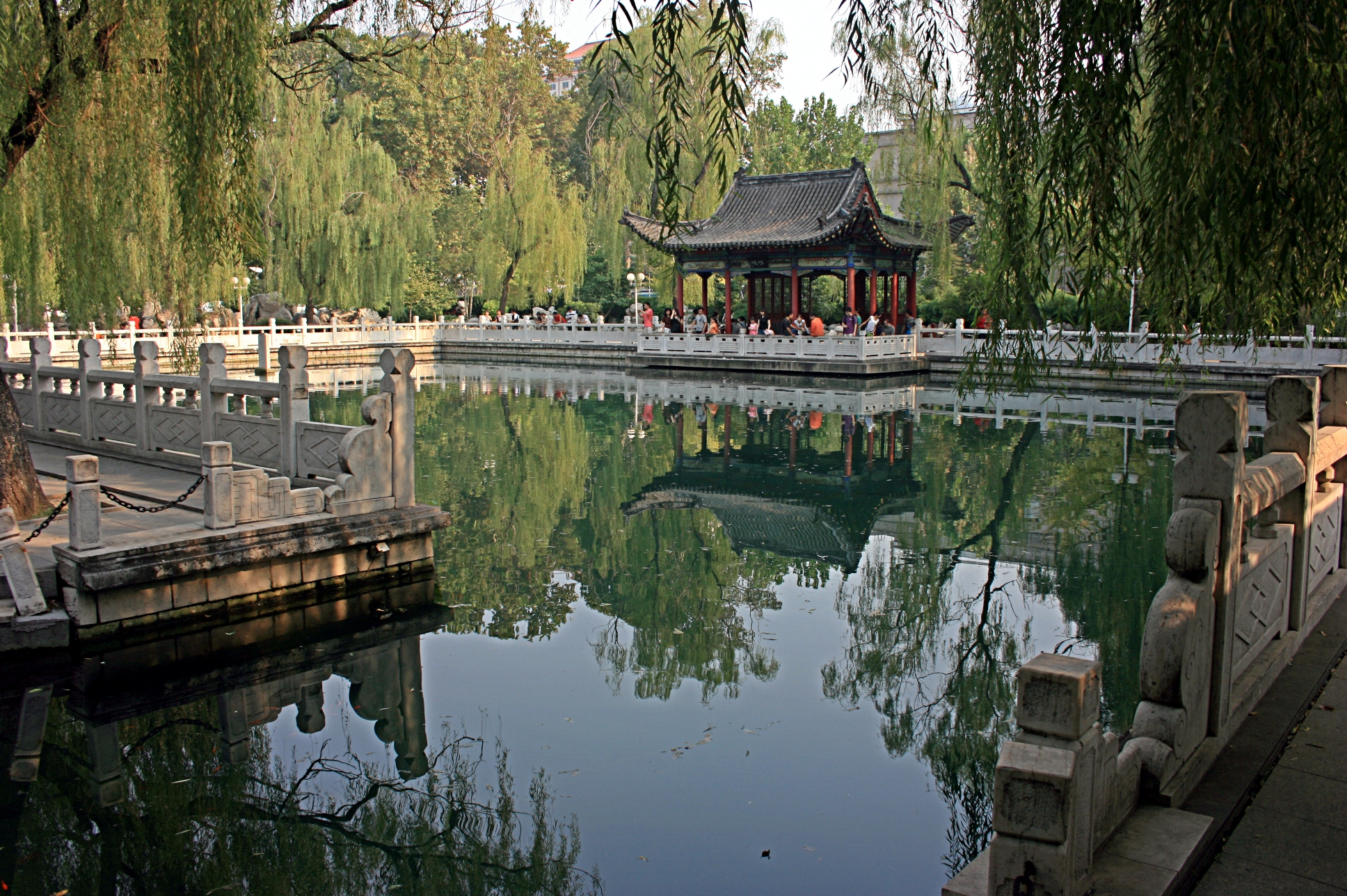 Photograph of the Pearl Spring pool, Jinan, Shandong, China